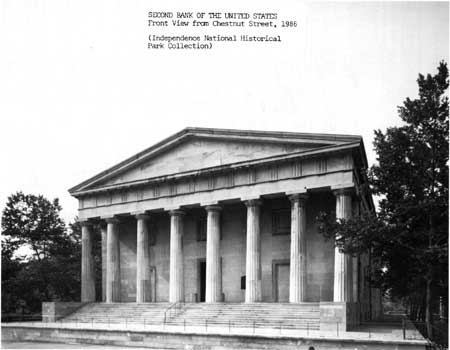 Second National Bank of the United States, designed by William Strickland, Philadelphia, Pennsylvania